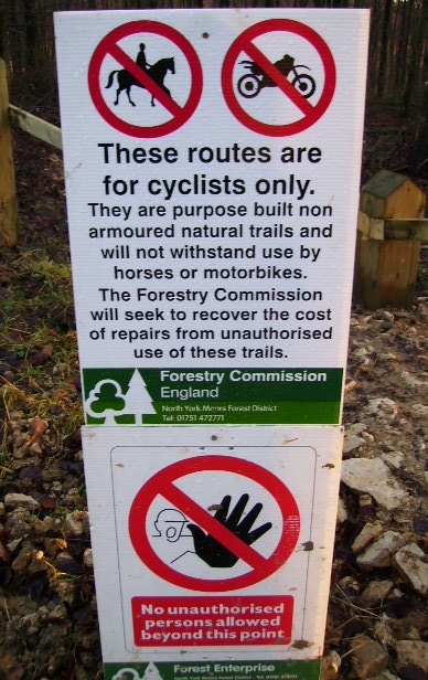 Trail sign (warning notice) on mountain bike trail.